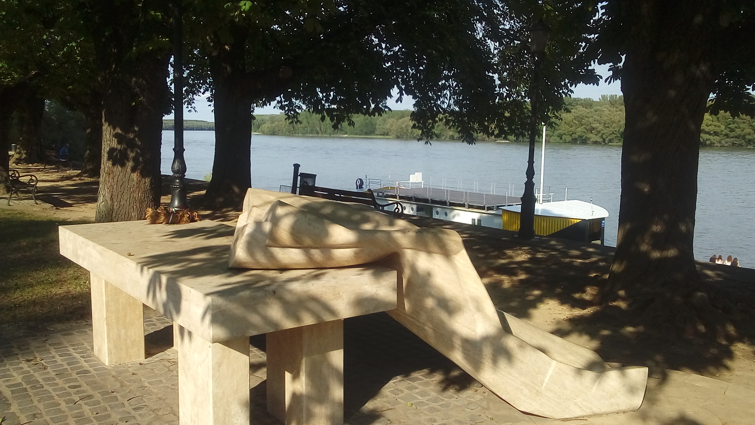 Trianon Memorial in Paks, Hungary, built in 2014